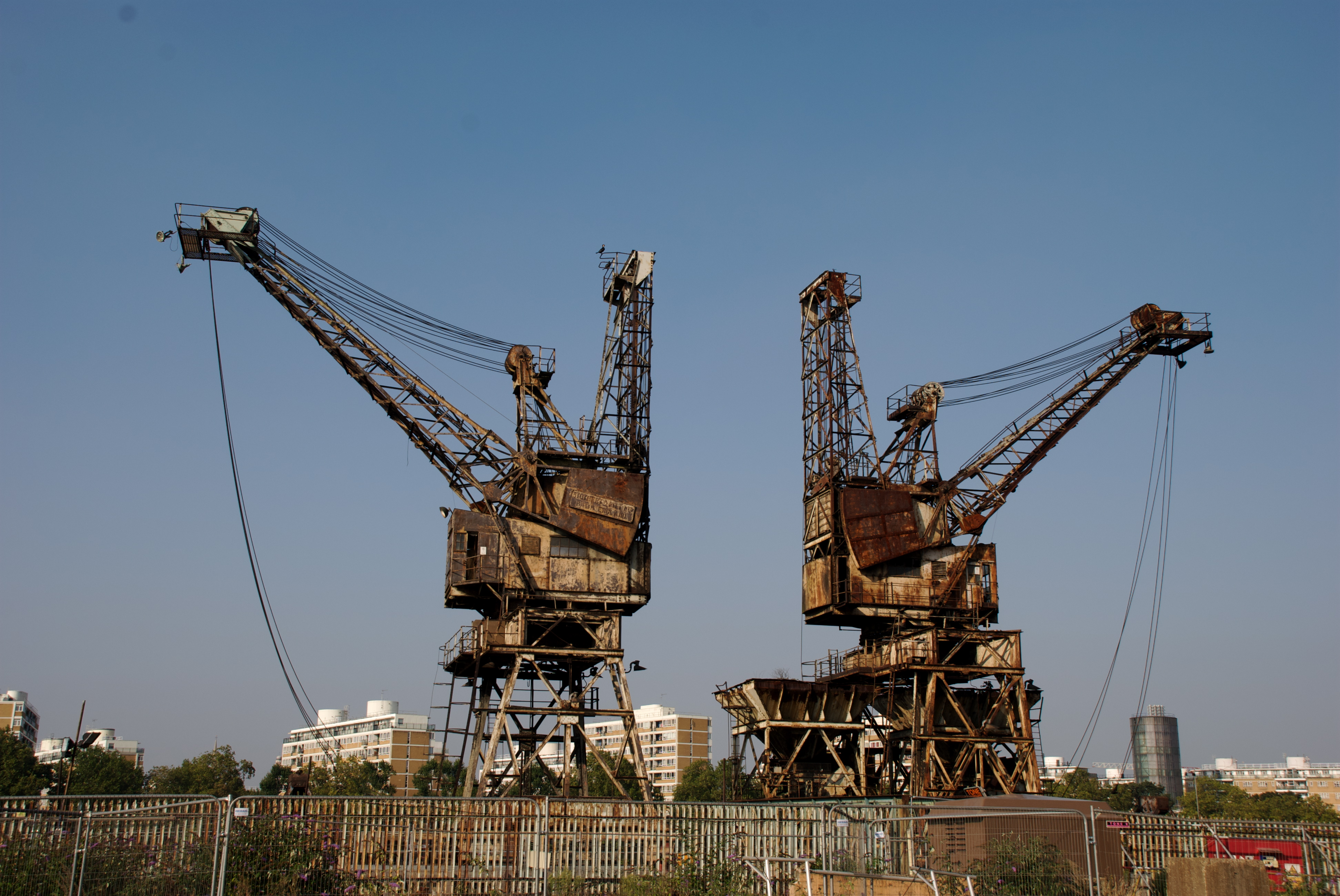 Cranes at the Battersea Power Station in London